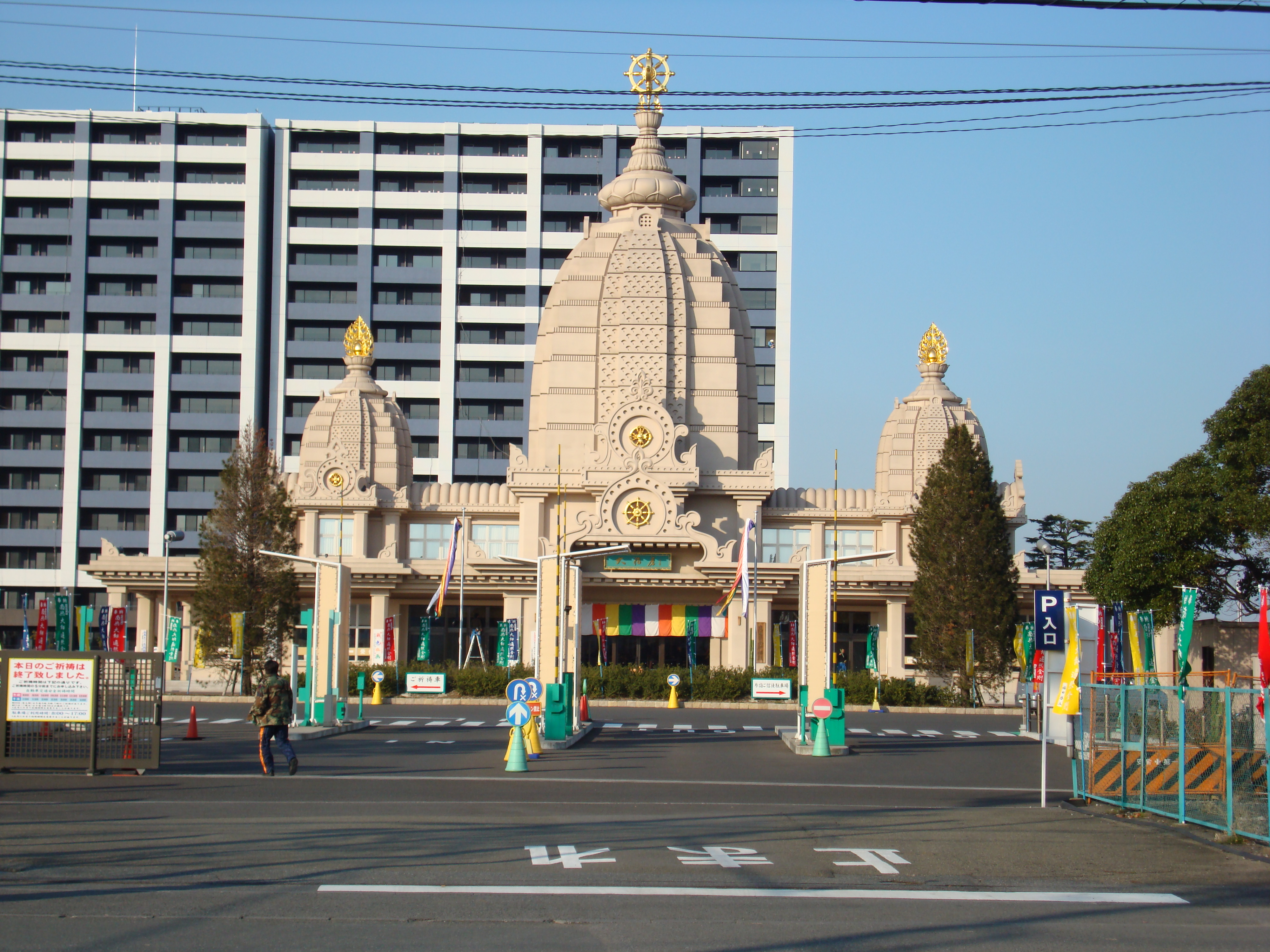 The Prayer Hall for Safe Driving of Heiken-ji (Kawasaki Daishi) temple.